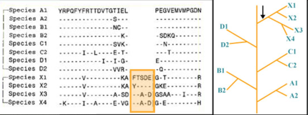 Group specific Conserved signature INDEL (CSIs). The dashes in all alignments presented here indicate the presence of an amino acid identical to that on the top line.